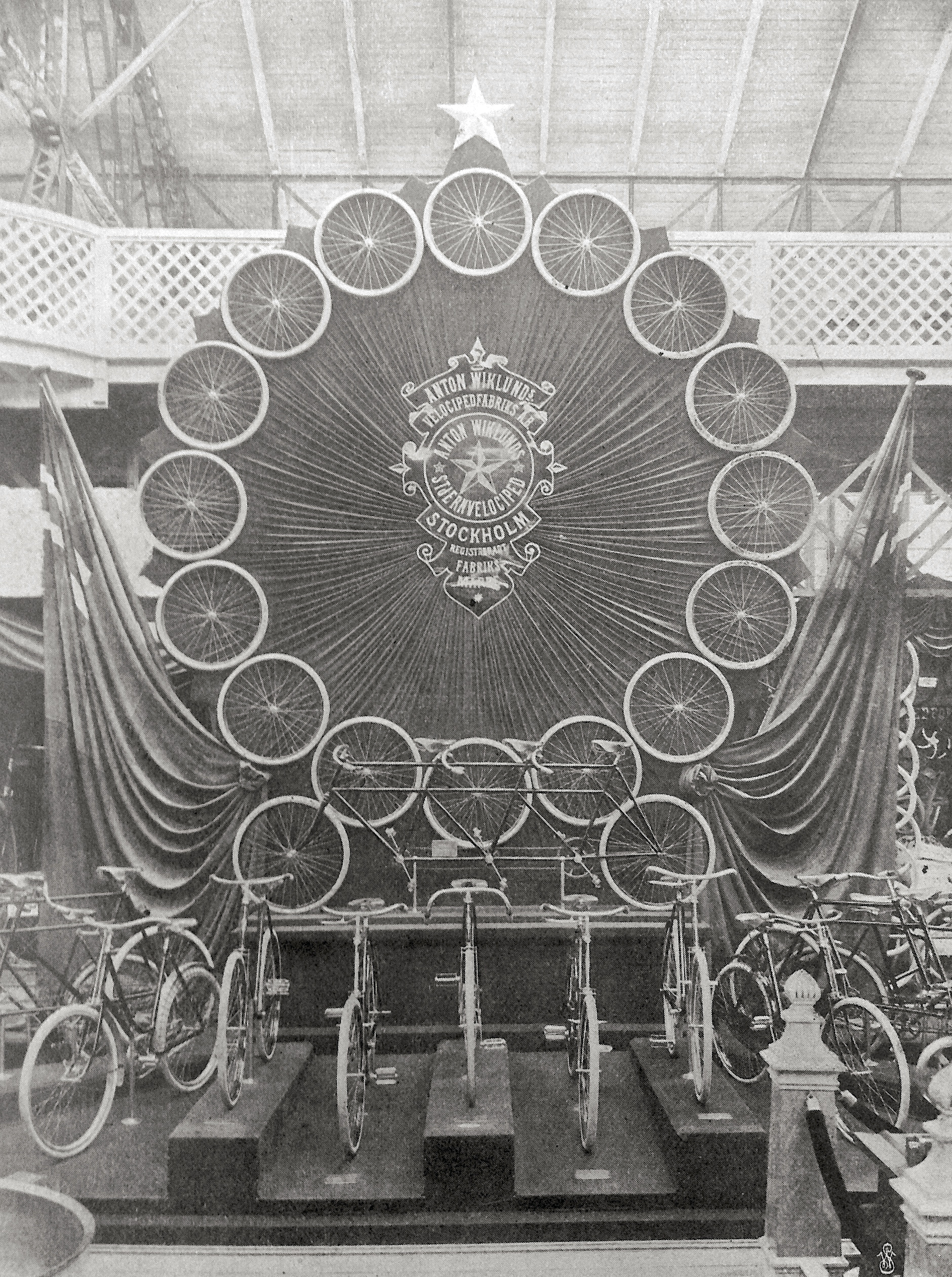 The General Art and Industrial Exposition of Stockholm of 1897; Exhibition of Anton Wiklund, maker of bicycles.